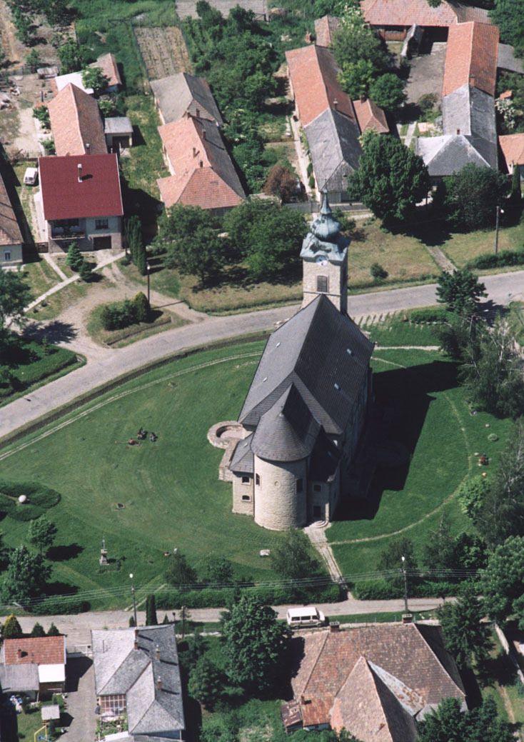 Temple - Feldebrő - Hungary - Europe